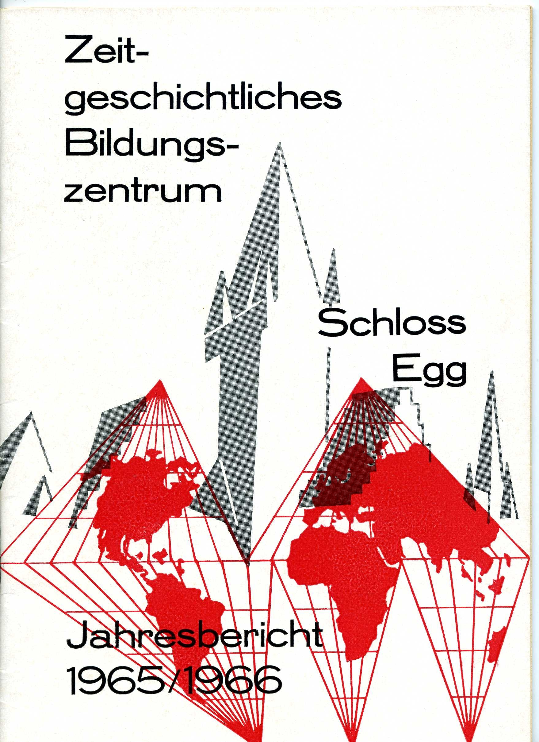 Zeitgeschichtliches Bildungszentrum Schloss Egg